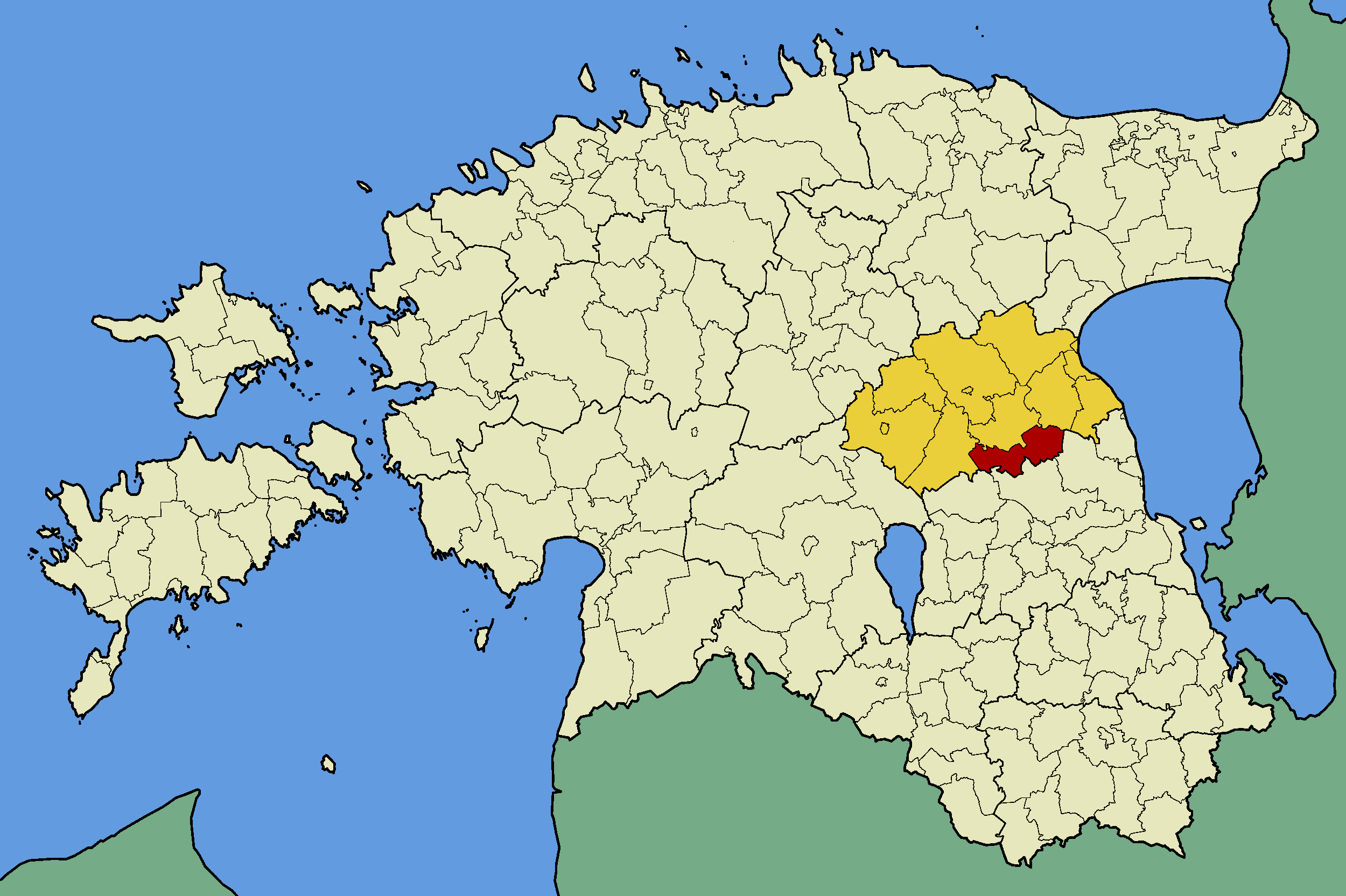 Map of Estonia with borders of municipalities (parishes). Jõgeva county and Tabivere municipality emphasized.